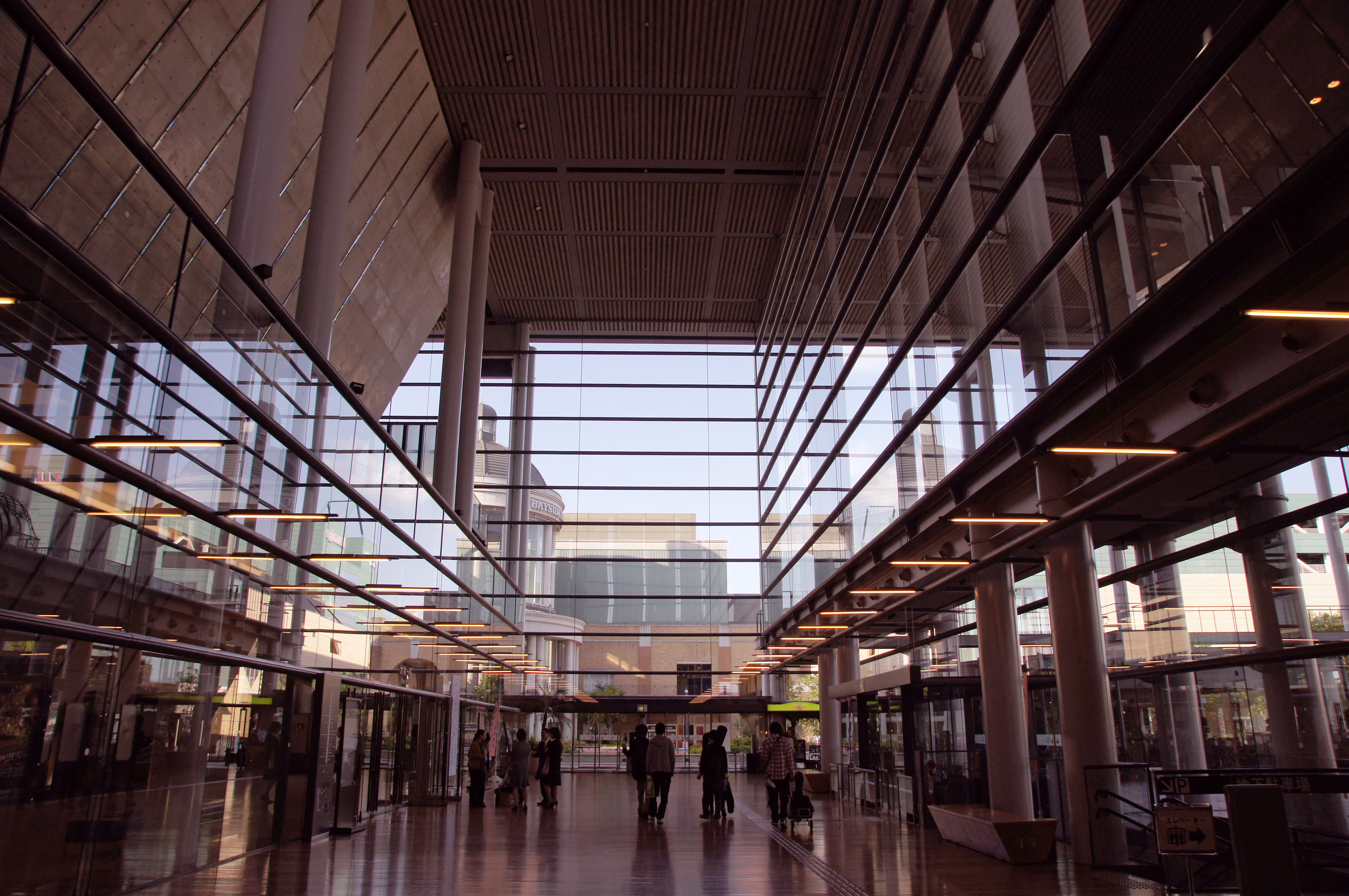 Namikiri Hall in Kishiwada, Osaka prefecture, Japan